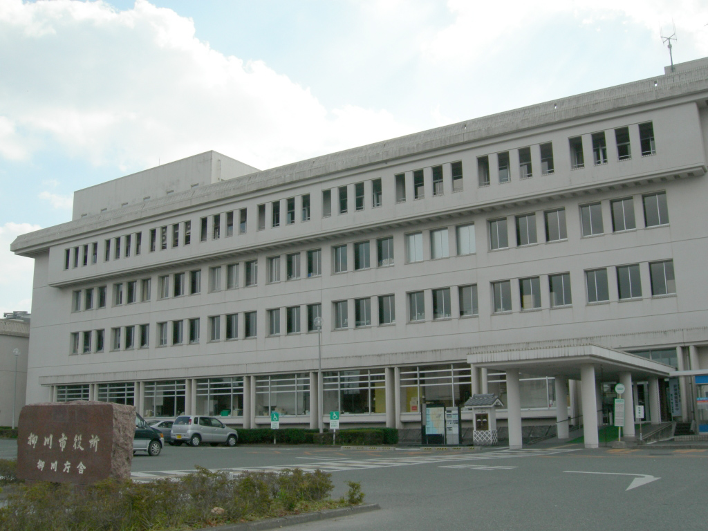 City Office of Yanagawa, Fukuoka, Japan